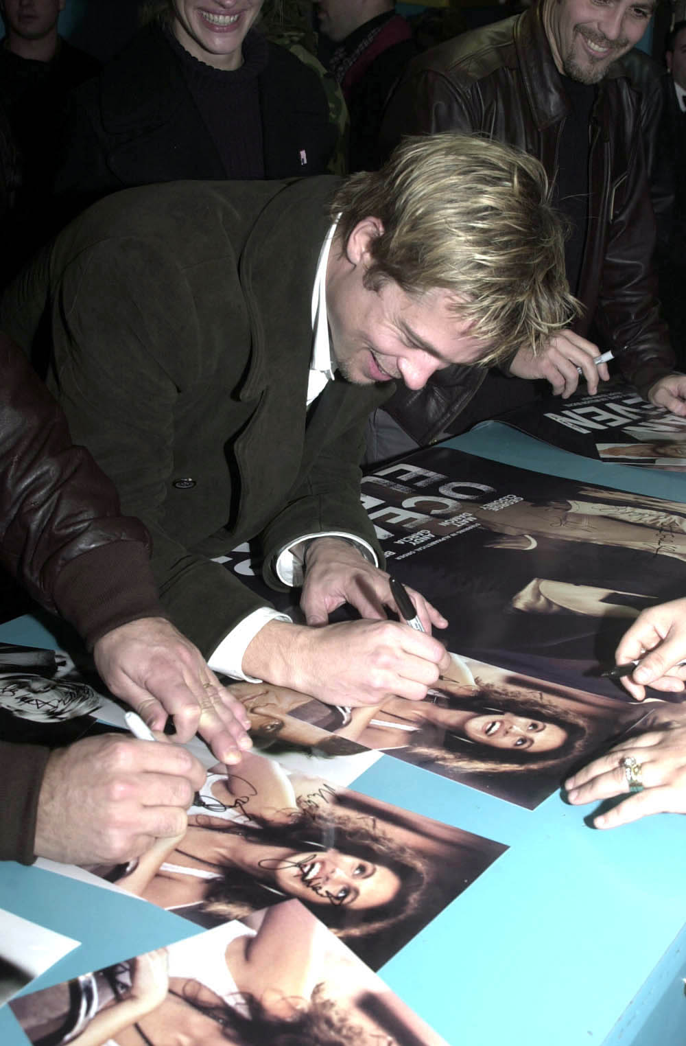 Brad Pitt signs autographs for troops during his December 7th visit to Incirlik Air Base, Turkey. Pitt accompanied Julia Roberts, George Clooney, Matt Damon and Andy Garcia on their visit with U.S. troops overseas.